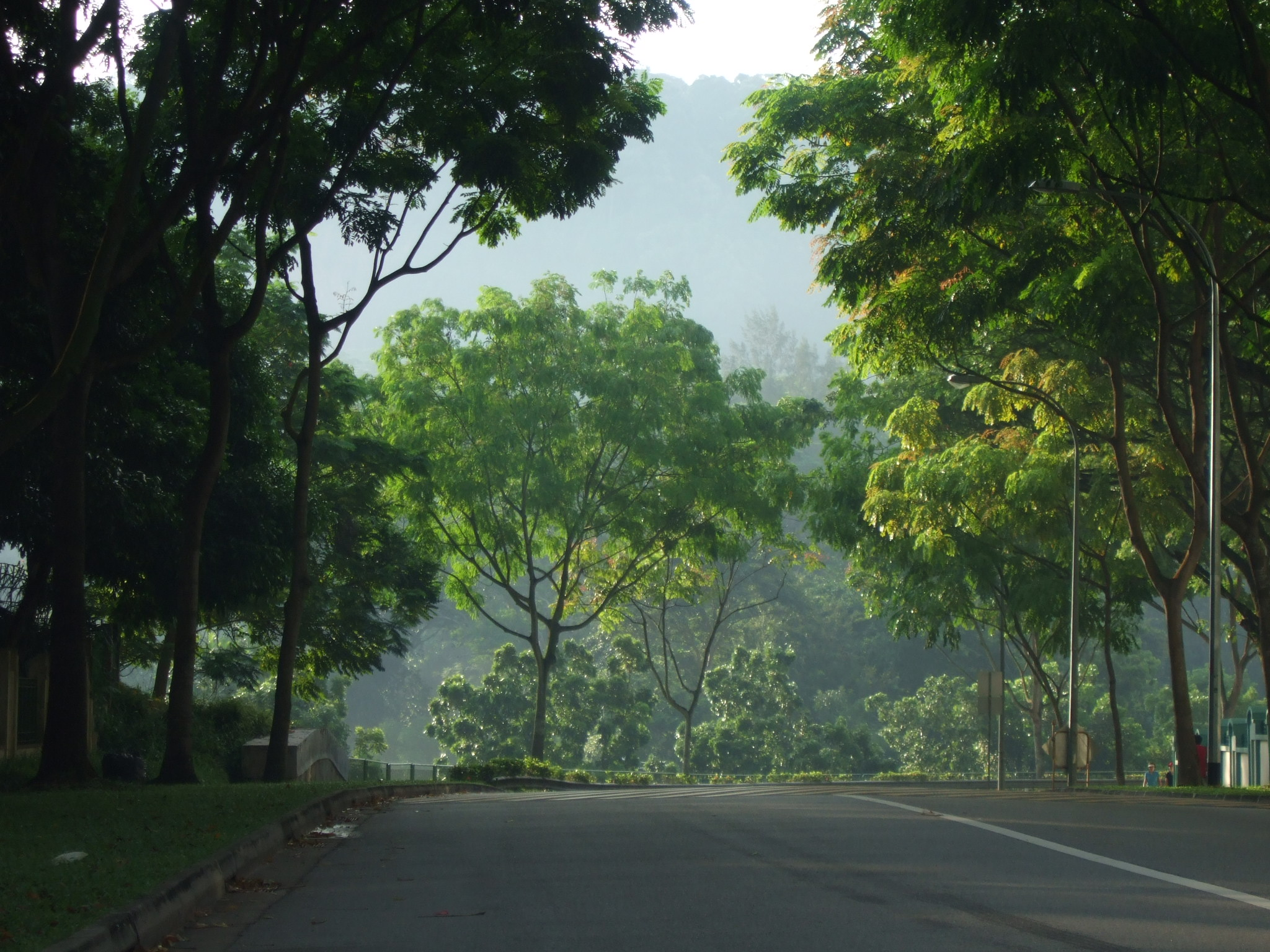 Hume Avenue in Upper Bukit Timah, Singapore.